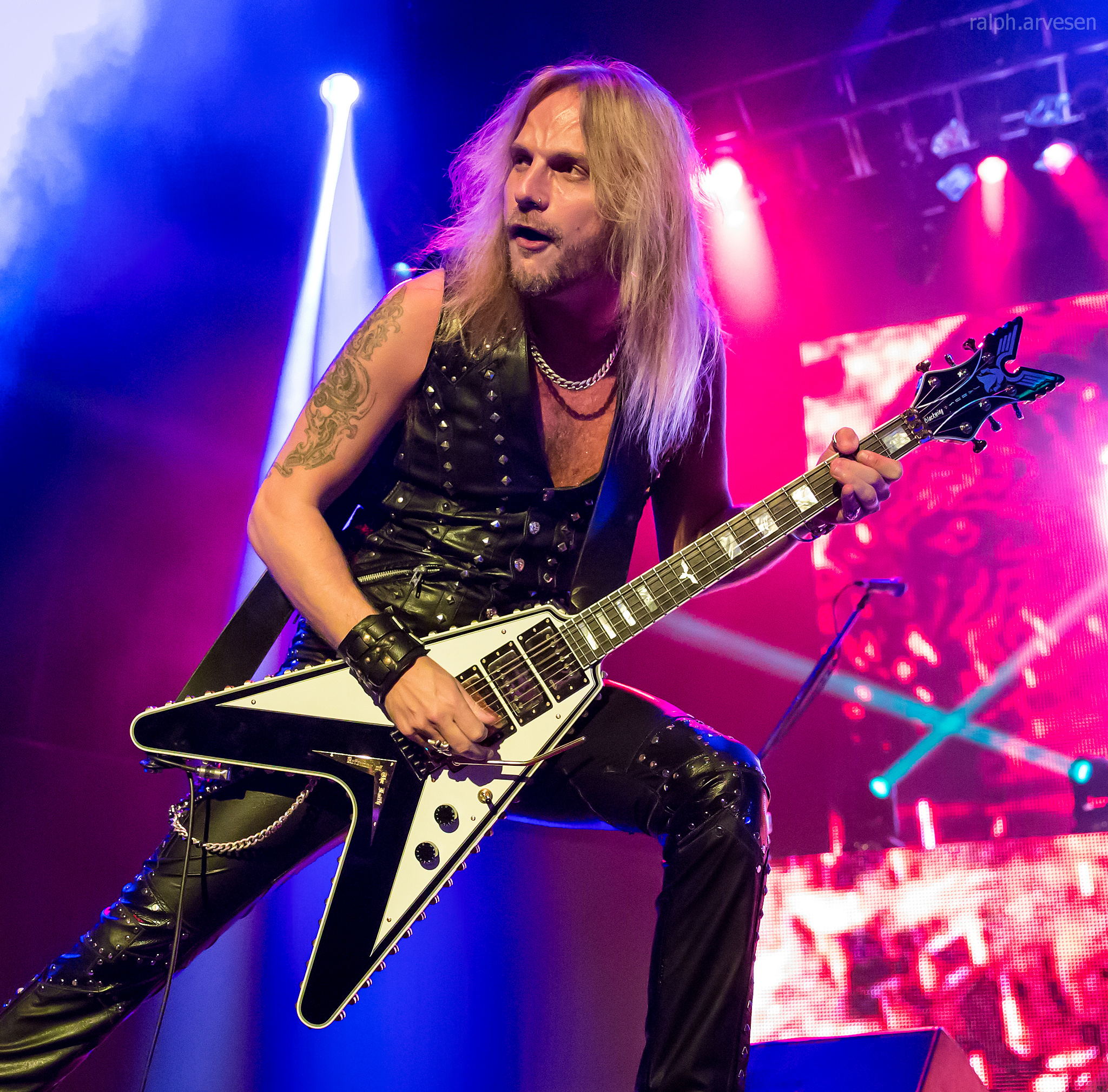 Richie Faulkner of Judas Priest performing in Texas in May 2015.